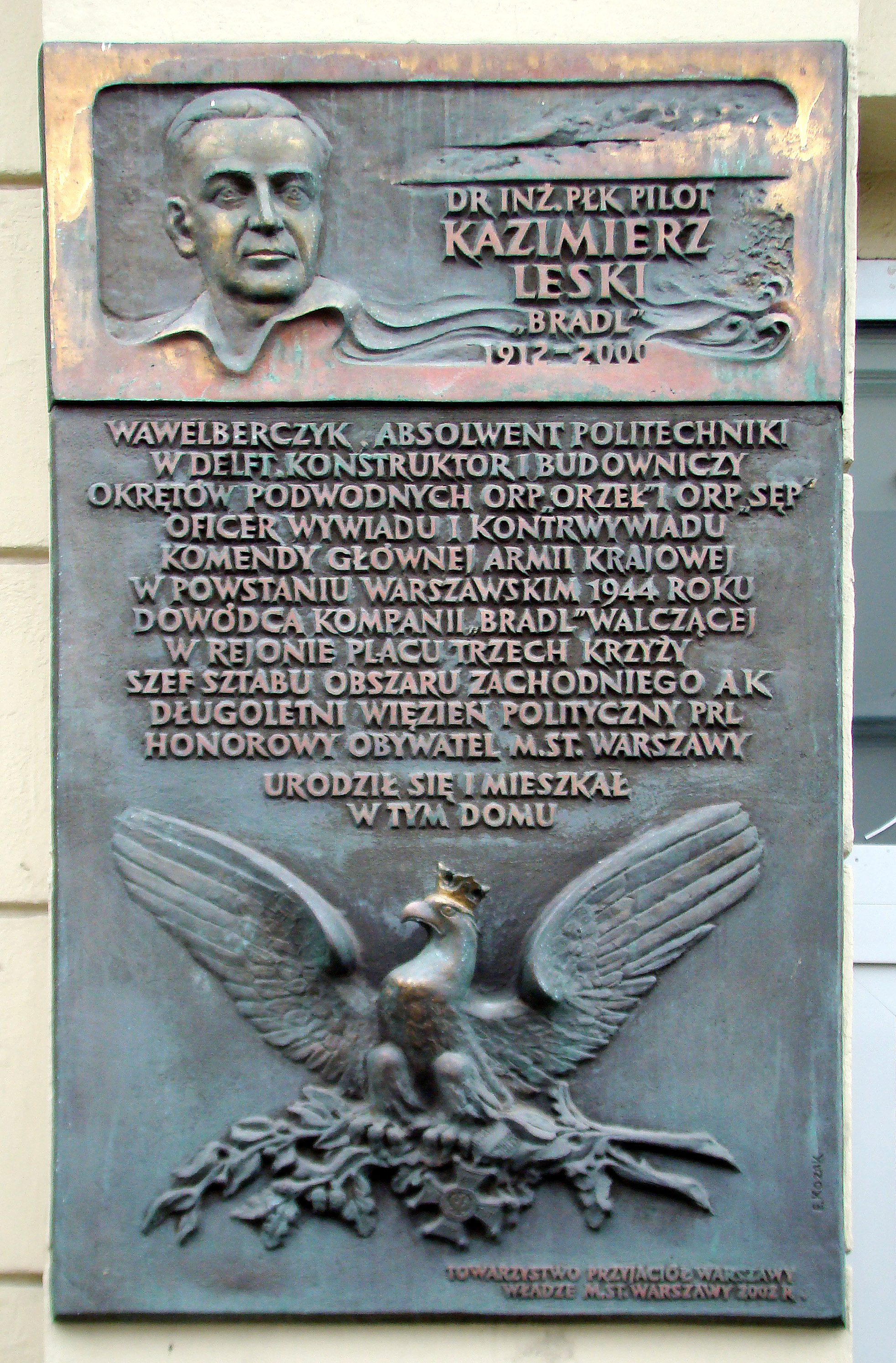 Kazimierz Leski memorial plate